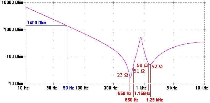 Impedance of AC filter used on Kontek HVDC according